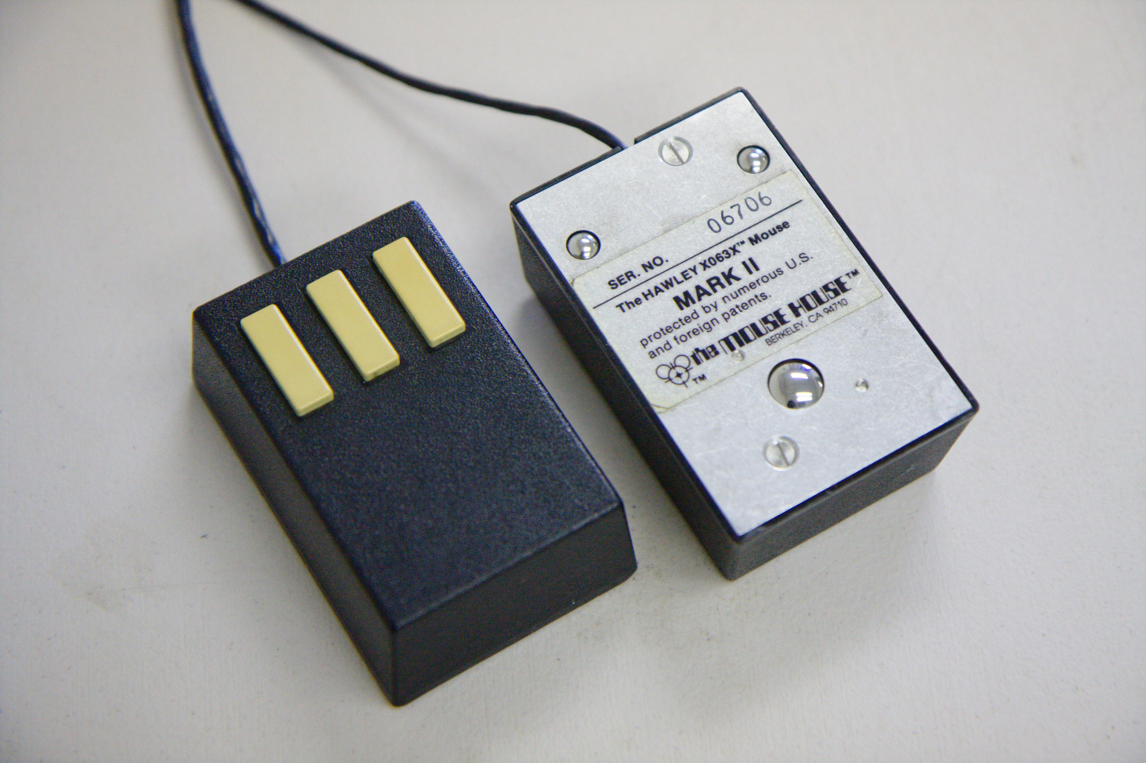 Top and bottom view of Hawley Mark II mice created by Jack Hawley and sold through the Mouse House. Original photo taken by Steve Rainwater, flickr user steevithak, and licensed the Creative Commons BY-SA. Uploaded by the photographer and donated for use on Wikipedia.